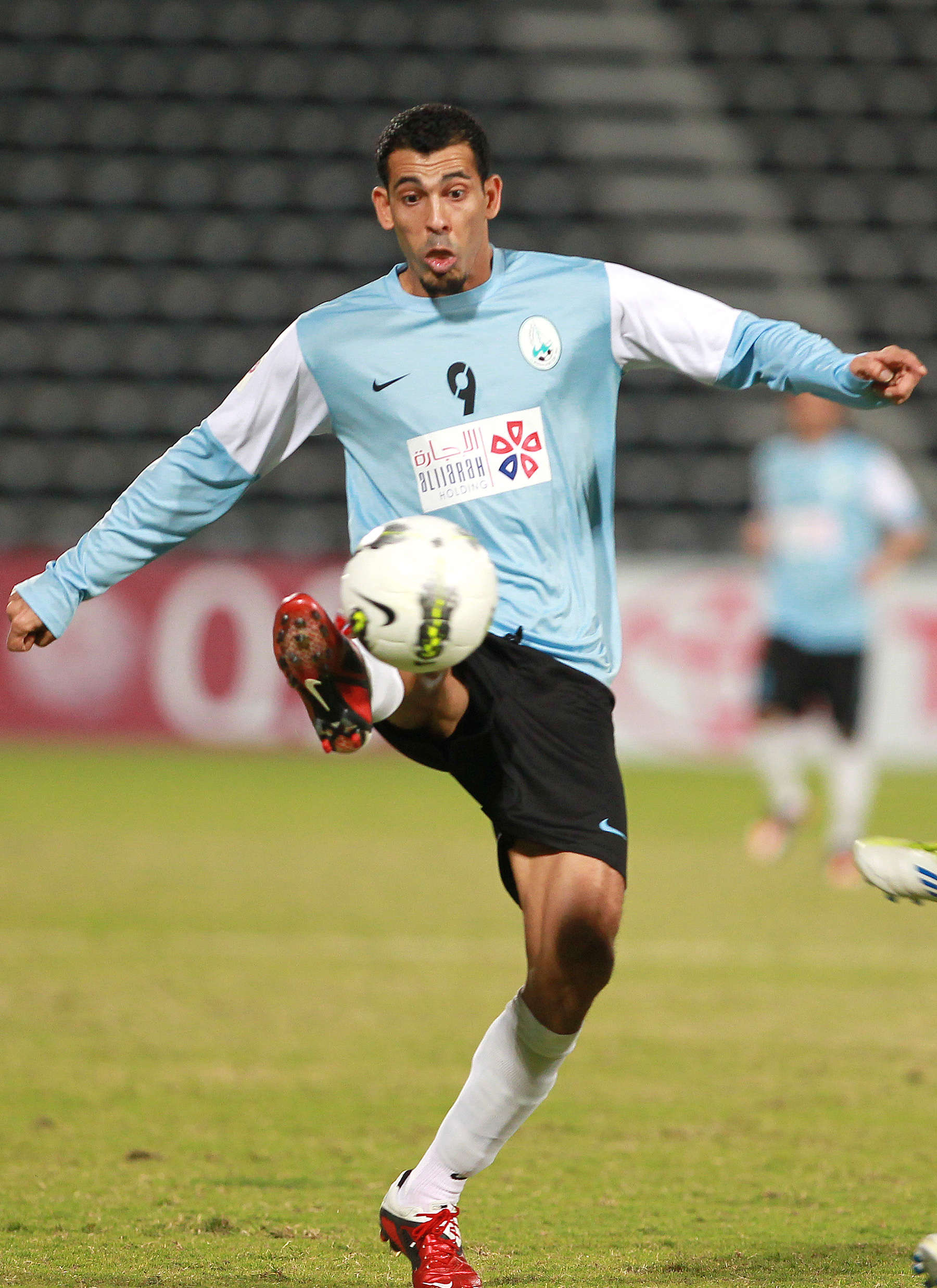 Al Wakra's Iraqi player Younis Mahmoud controls the ball during a Qatar Stars League match. Pic by AK Bijuraj